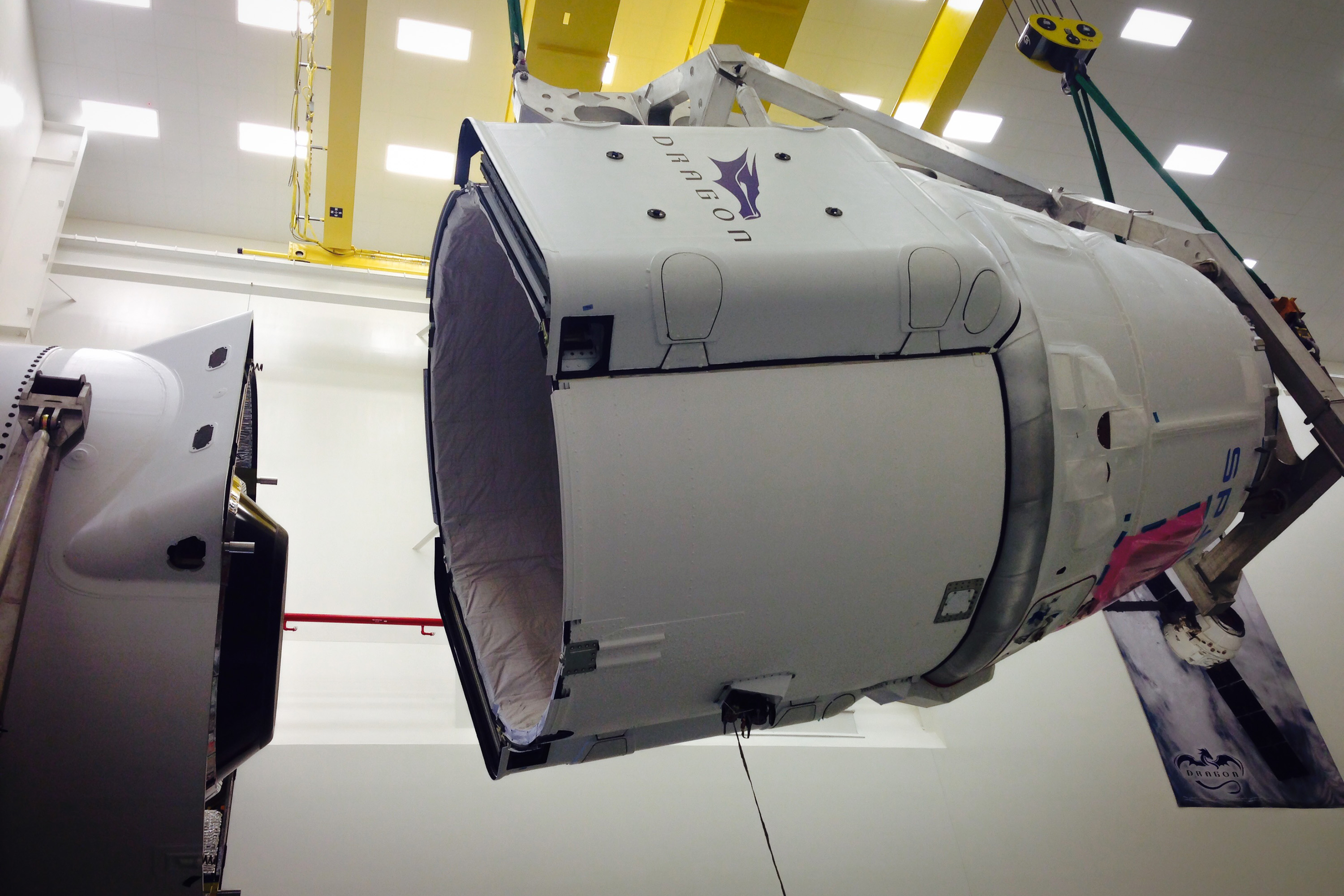 Final processing for the SpaceX CRS-6 Dragon ahead of the 13 April 2015 launch attempt to the International Space Station.